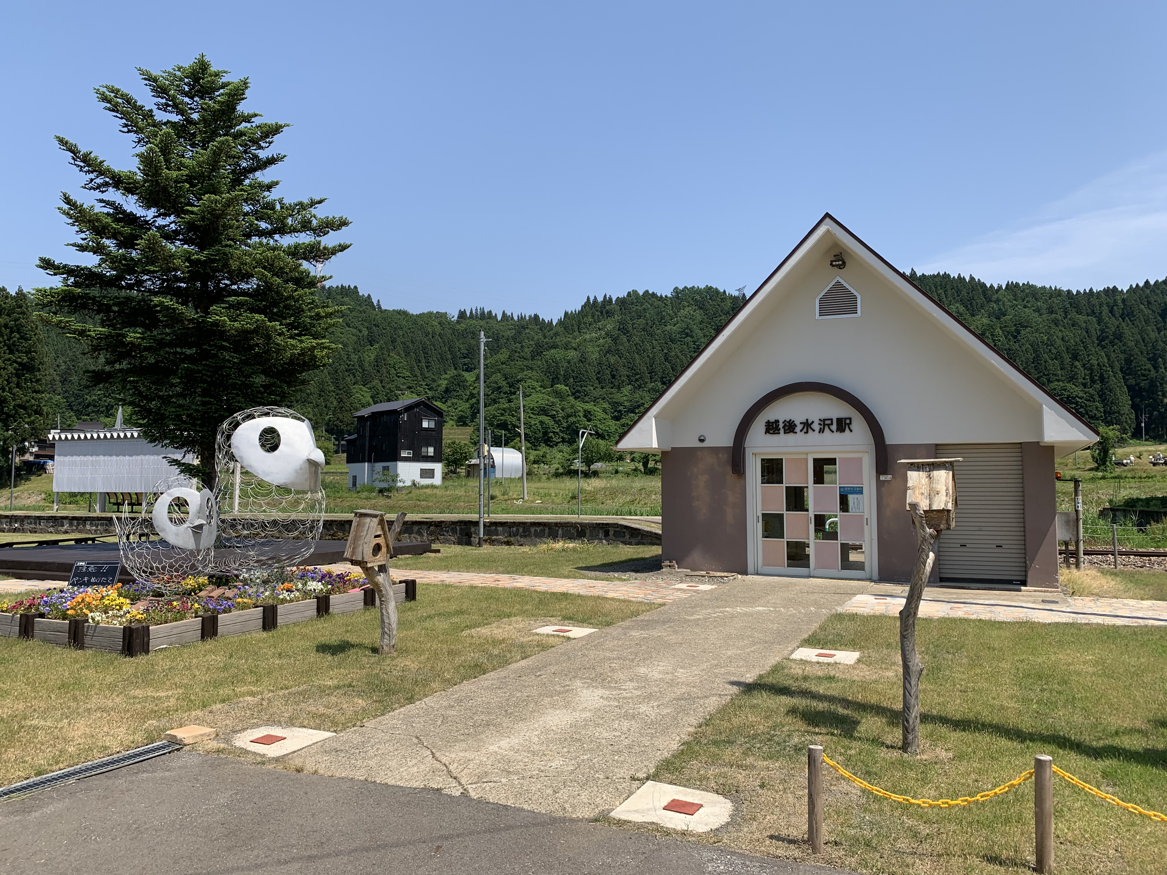 Echigo-Mizusawa Station, East Japan Railway Company. Took photo in June 2020.